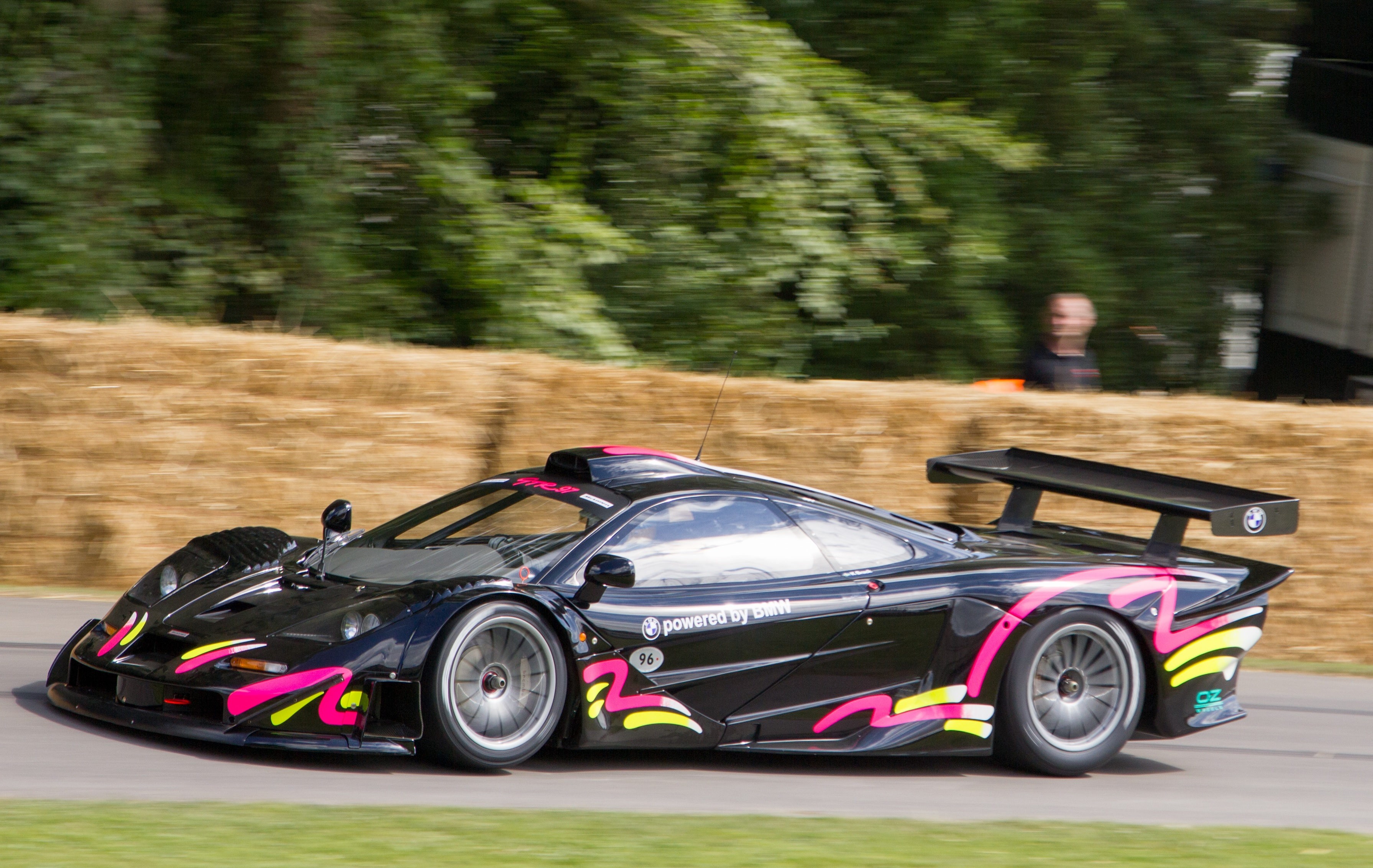 Kenny Bräck driving the McLaren F1 GTR "Long Tail" at the 2014 Goodwood Festival of Speed.